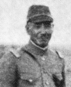 General Michitaro Komatsubara (1885-1940).